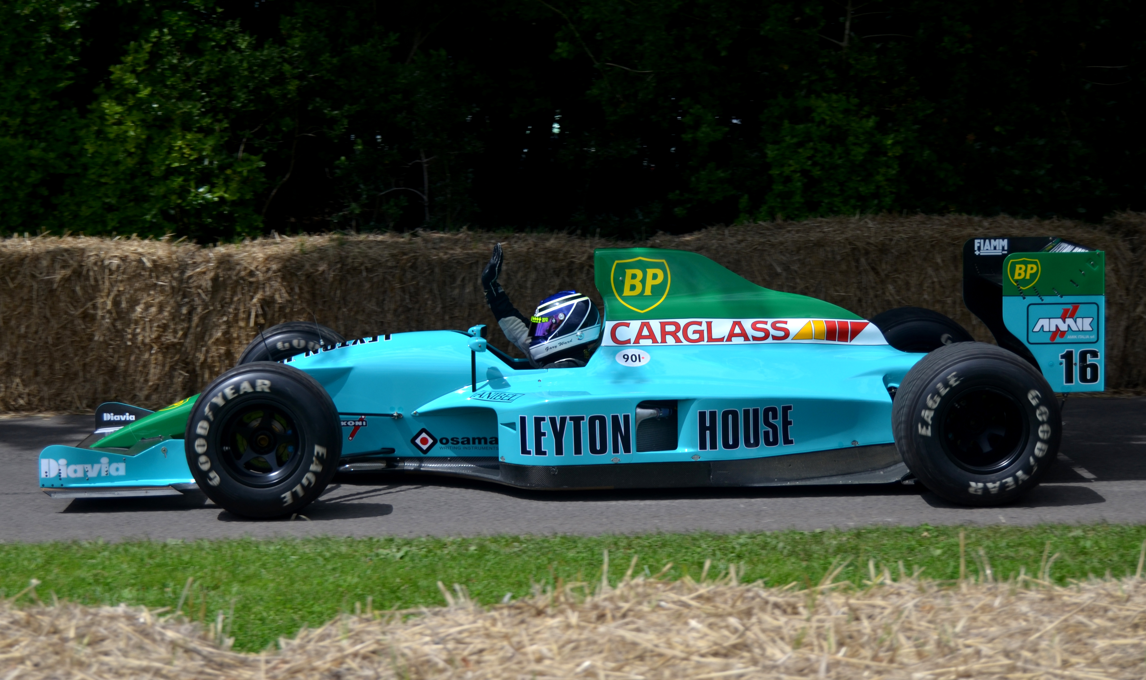 1990 Adrian Newey designed, Judd V8 powered F1 car at the 2012 Goodwood Festival of Speed.